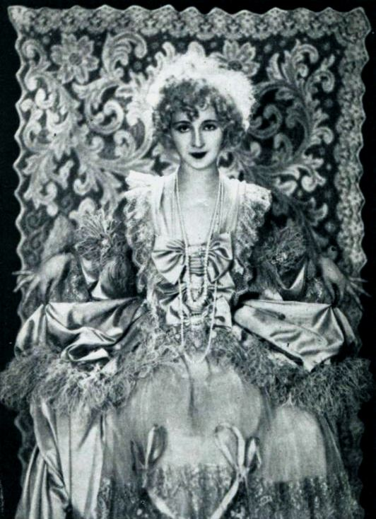 Actress Florence O'Denishawn (1897 – 1991), on page 17 of the August 1922 The Tatler. She was in the 1921 Ziegfeld Follies, several plays, and two films.